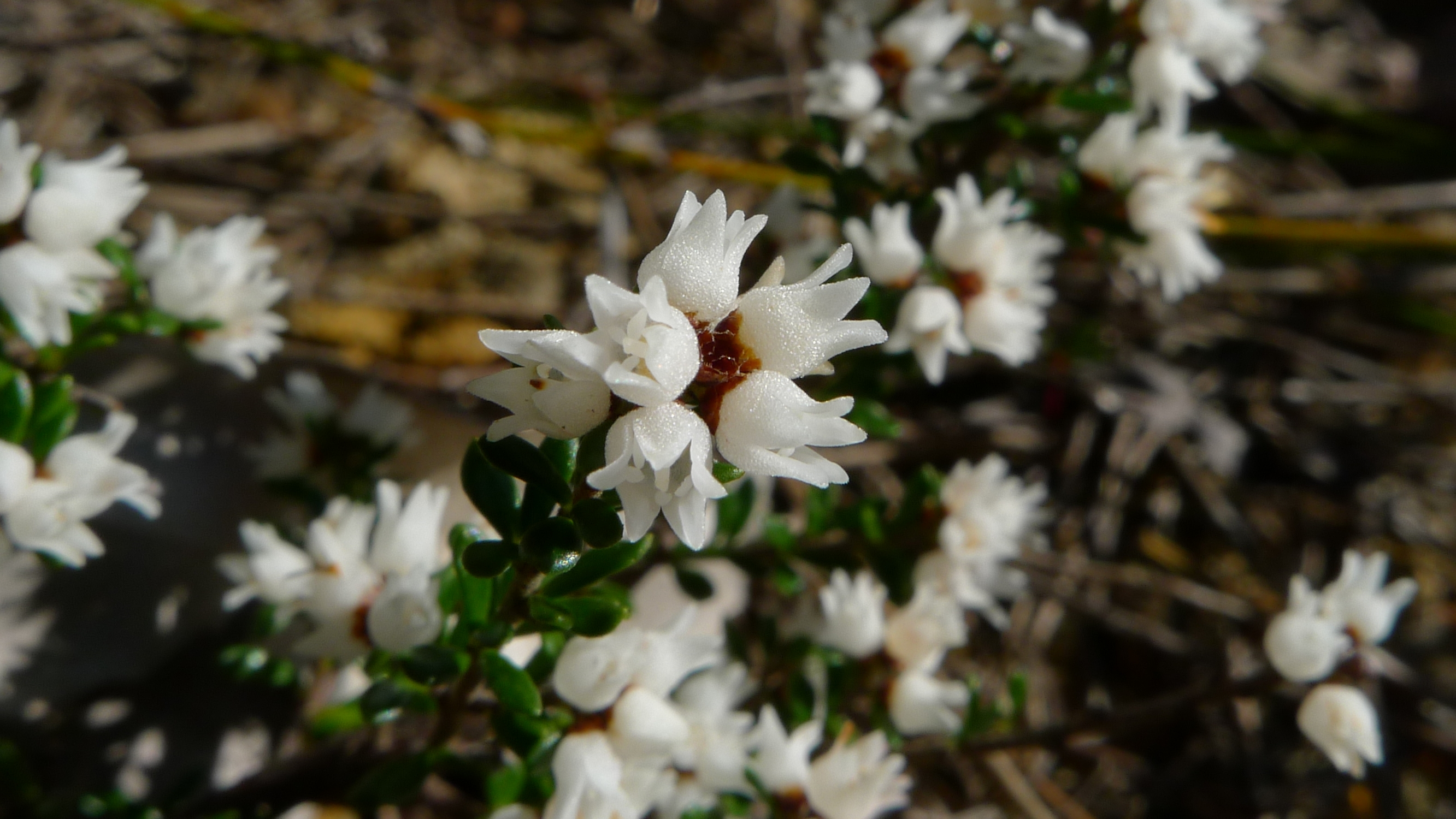 Probably Bitter Cryptandra, Cryptandra amara. Royal National Park, NSW Australia, July 2011.